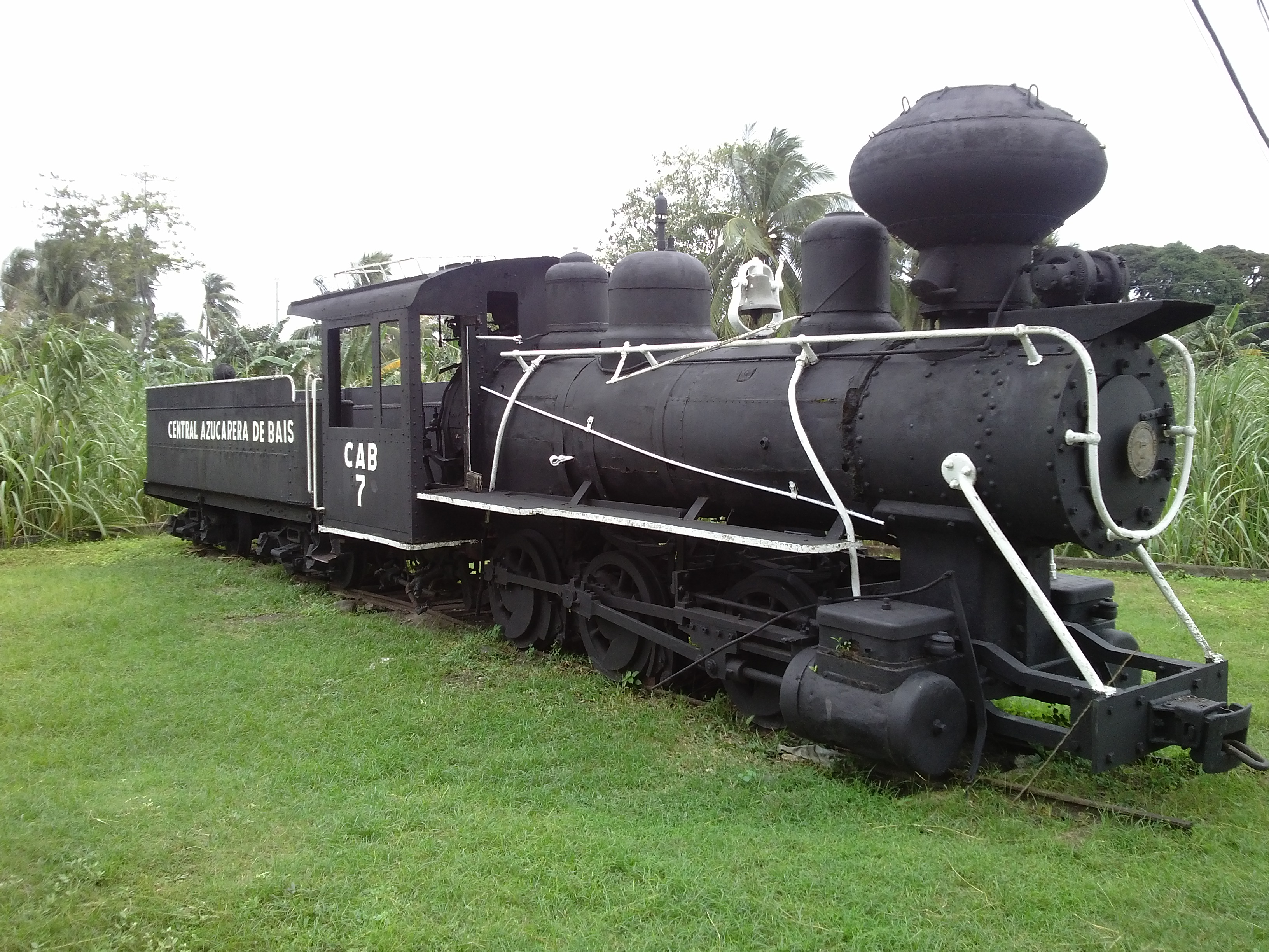 Narrow gauge steam locomotive manufactured by Baldwin in the US on display opposite the sugar mill Central Azucarera de Bais and formerly used for hauling wagons loaded with sugar cane throughout the fields of the City of Bais in the Philippines